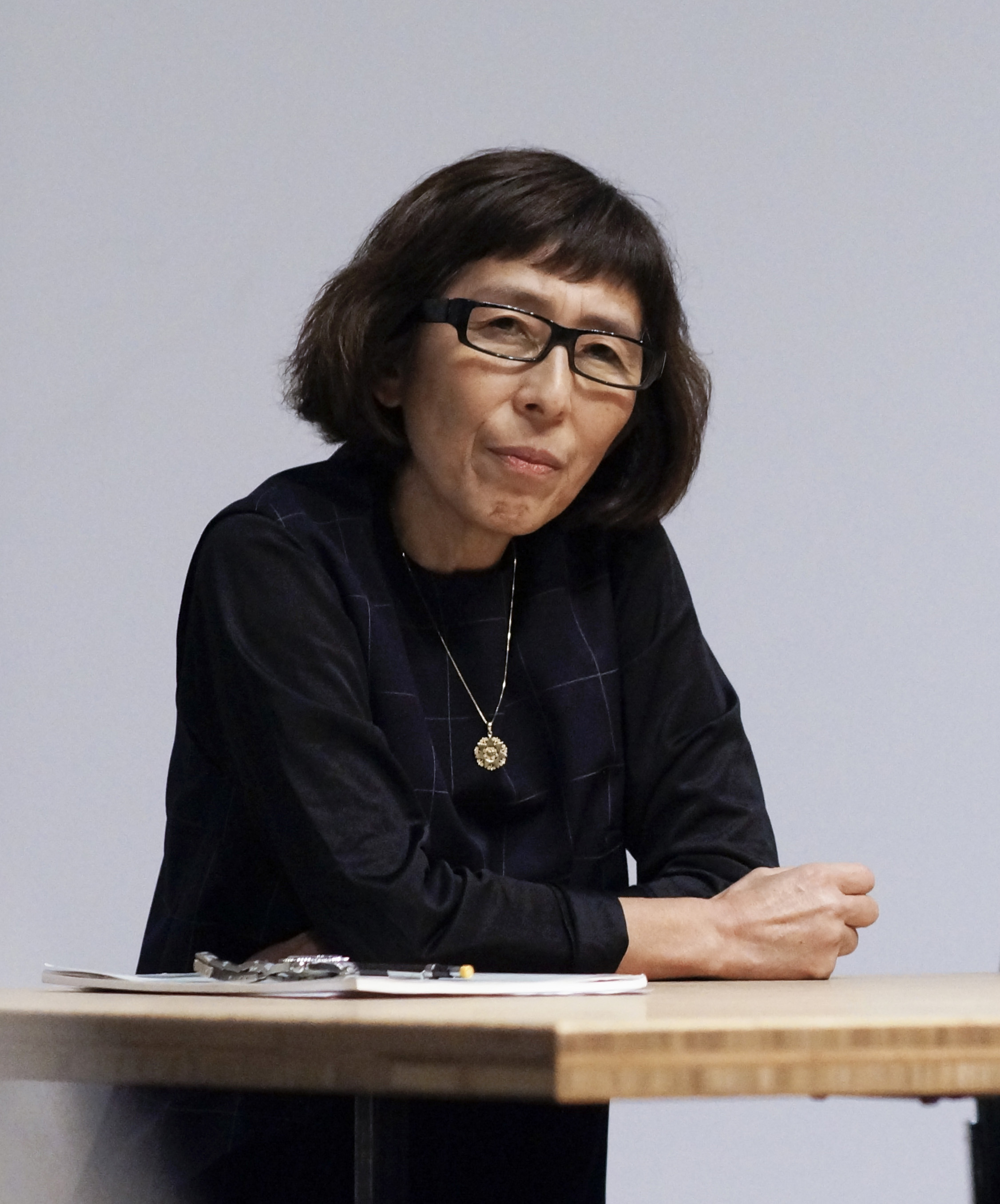 This file was derived from: Canopy Gathering Space (Kazuyo Sejima) (15137242547).jpg